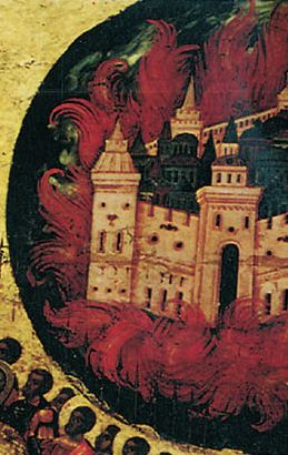 Detail of Blessed is the Host of the King of Heaven (alternatively known as Church Militant). Russian icon, ca. 1550 - 1560. Tretyakov Gallery. This icon is traditionally perceived as an allegorical representation of the conquest of the Kazan khanate.